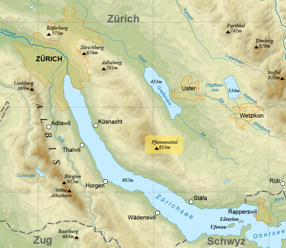 Topographic map of the area of Zürich, Switzerland